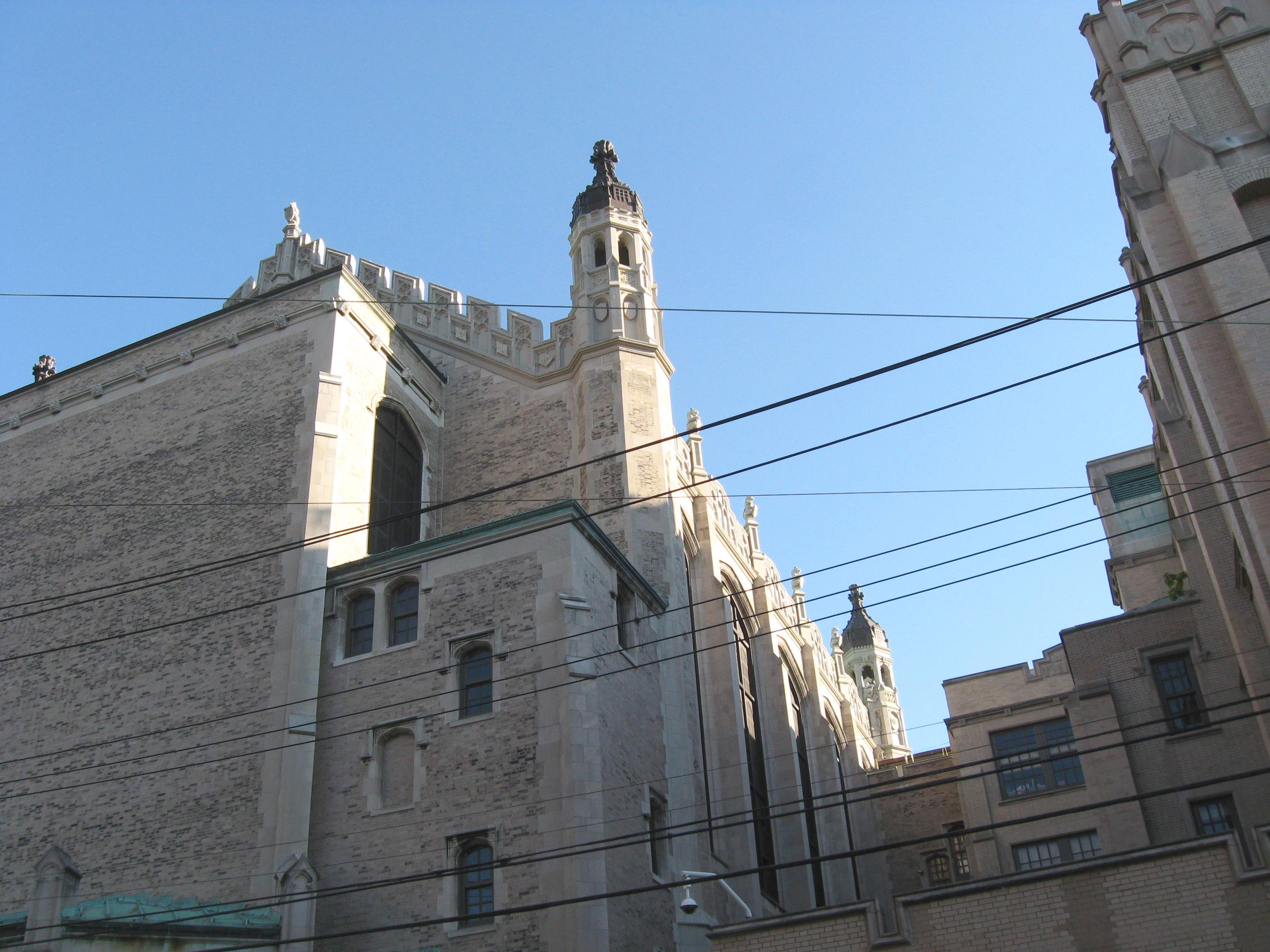 Looking southwest at Curtis High School on a sunny midday from St Lukes Street. NYCLPC designation 1982.